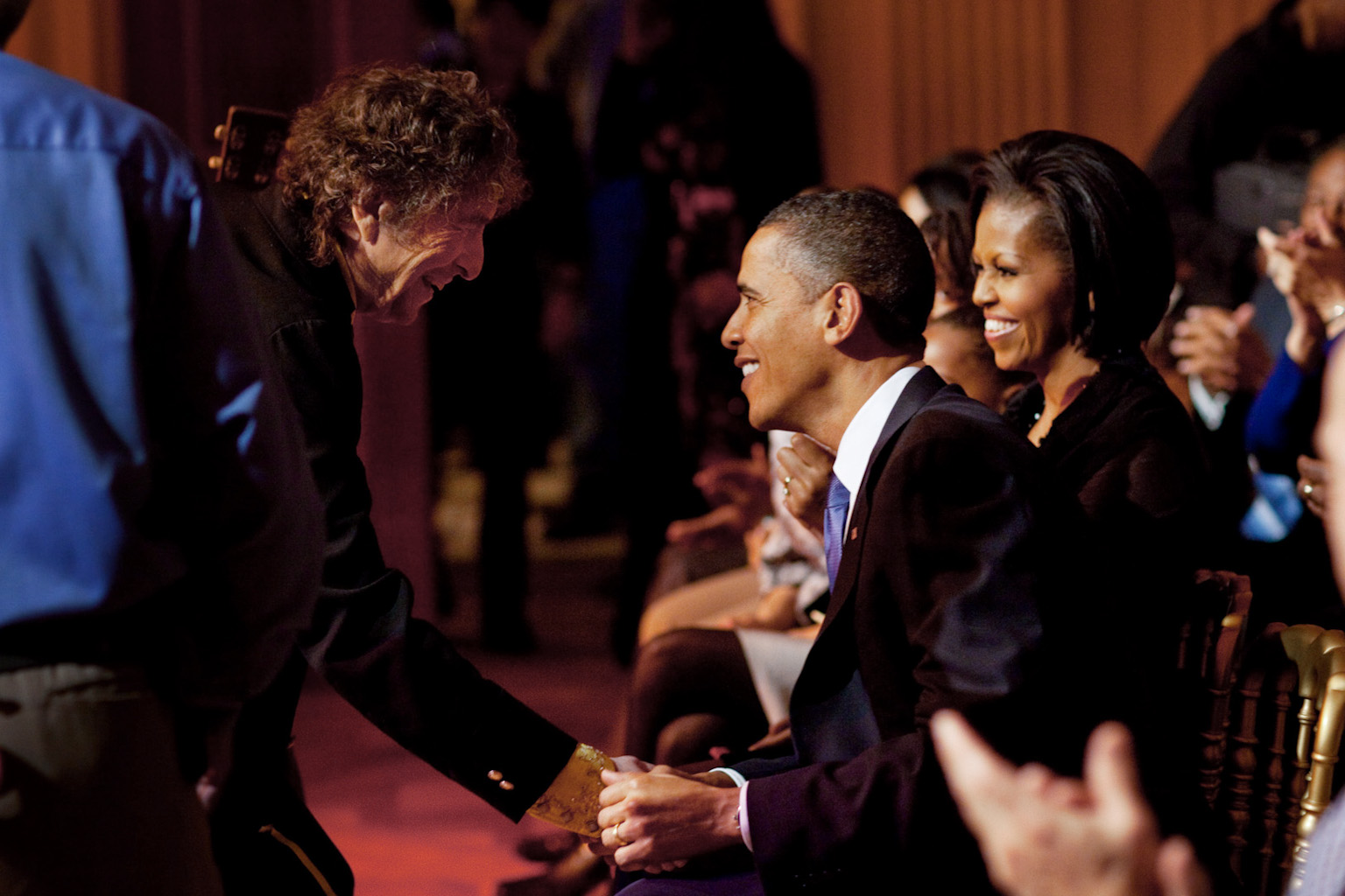 Bob Dylan shakes President Barack Obama's hand following his performance at the "In Performance At The White House: A Celebration Of Music From The Civil Rights Movement" concert in the East Room of the White House, Feb. 9, 2010.